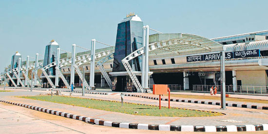 trichy airport front view after construction